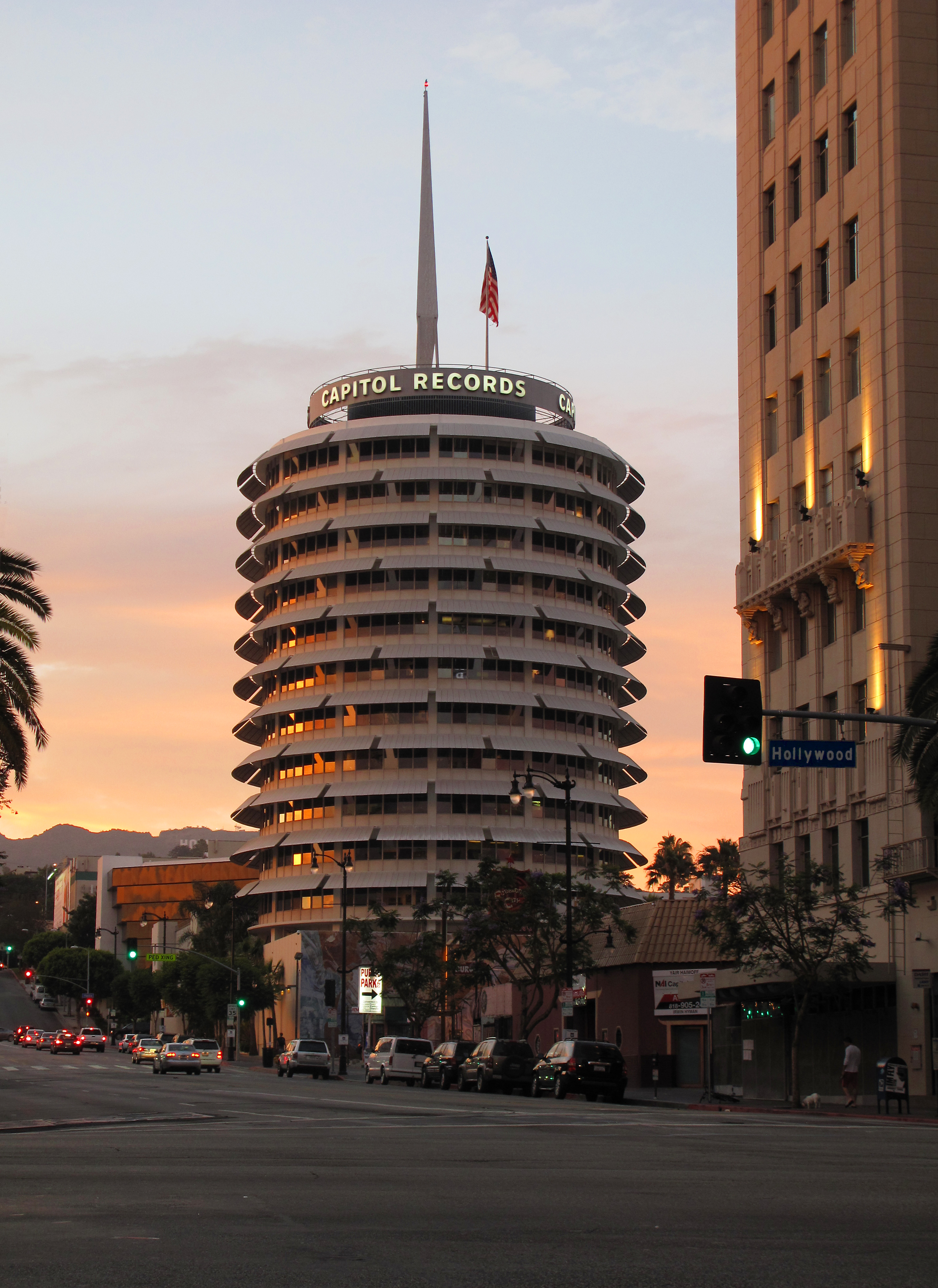 Capitol Records Building, Hollywood, Los Angeles, California; seen from the "Hollywood and Vine" intersection